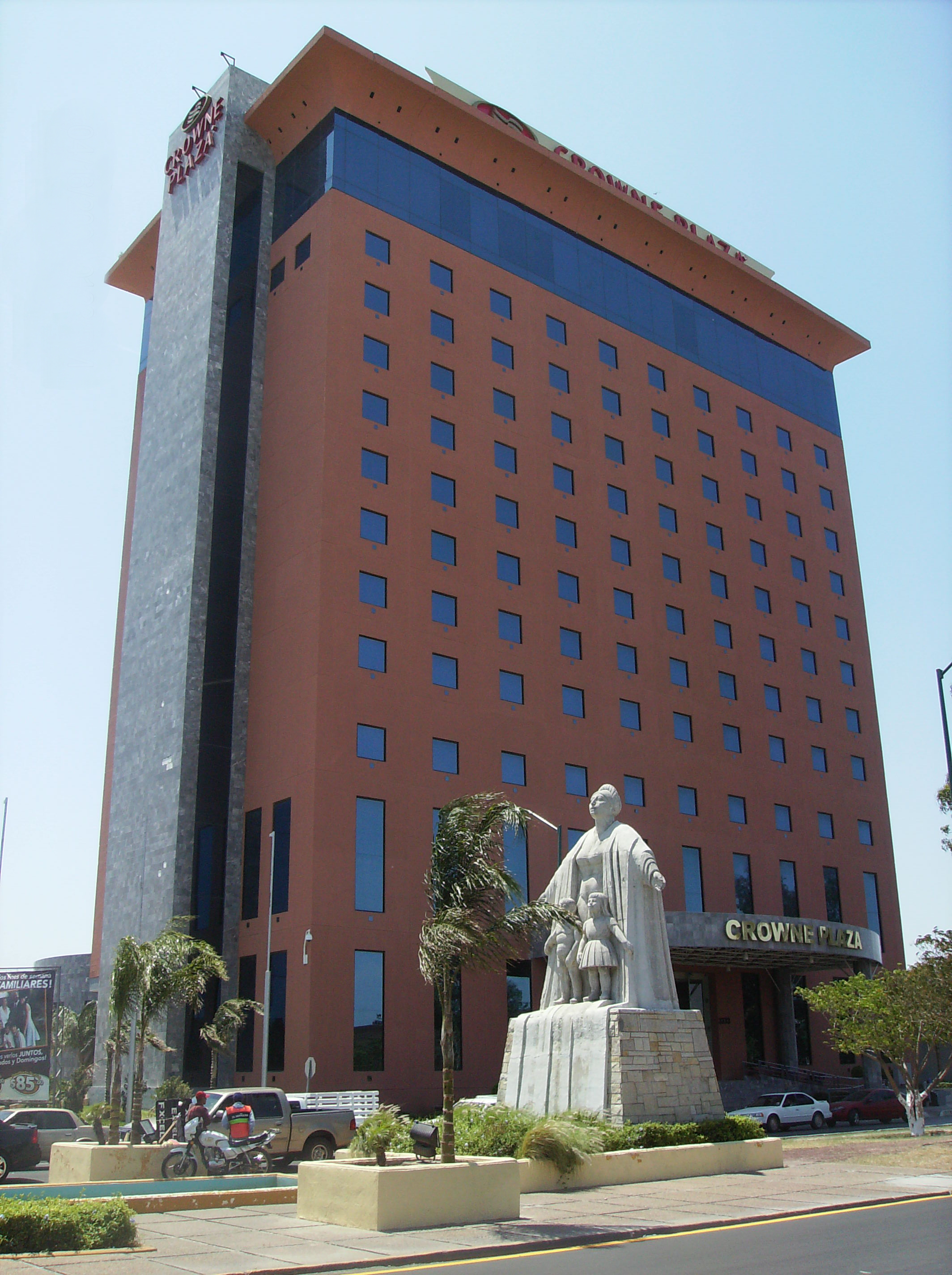 Mother's Monument and Royal Crowne plaza Building in nuevo Laredo